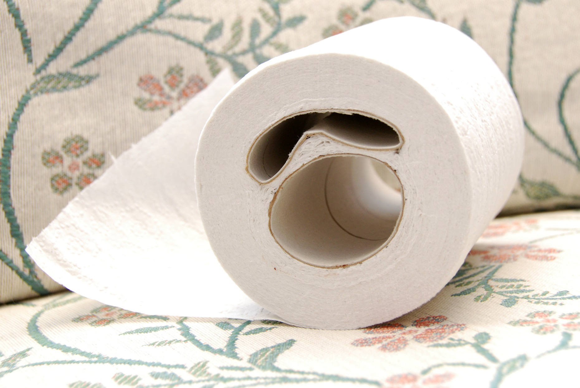 Oddity toilet paper roll with two cardboard tubes.